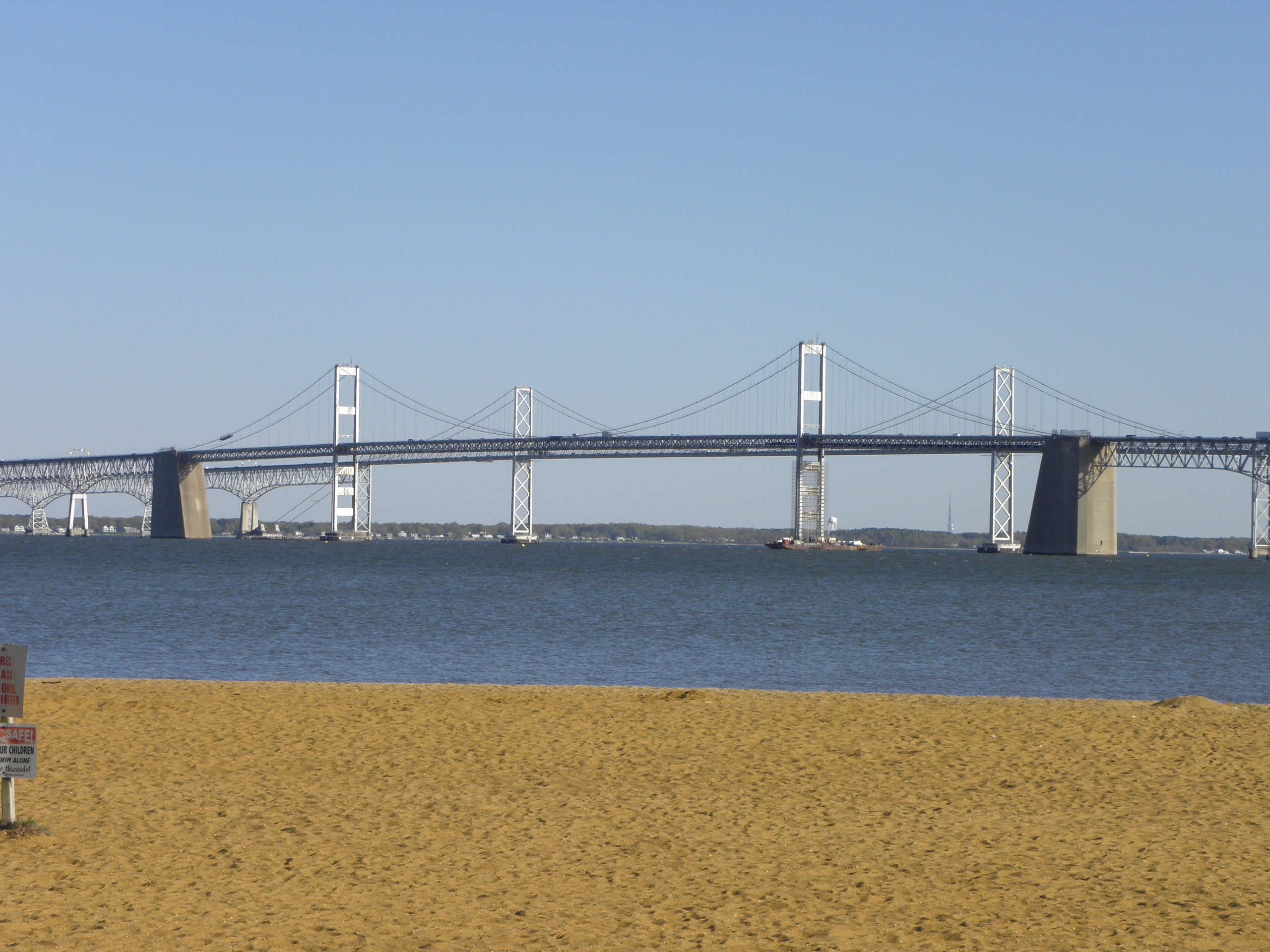 A picture of the Chesapeake Bay Bridge, seen from Sandy Point state park on the other side of the Bridge.